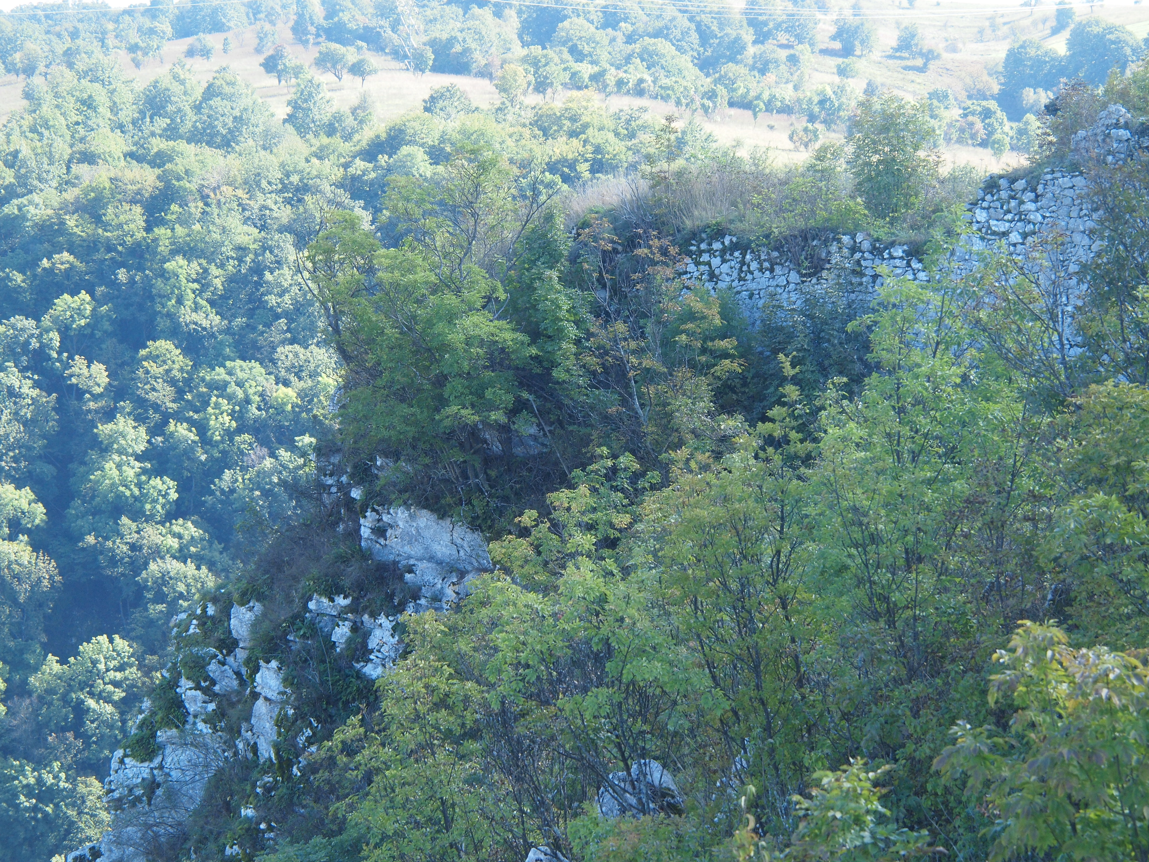 Carașova Fortress, near Iabalcea, Caraș-Severin County, Banat, Romania